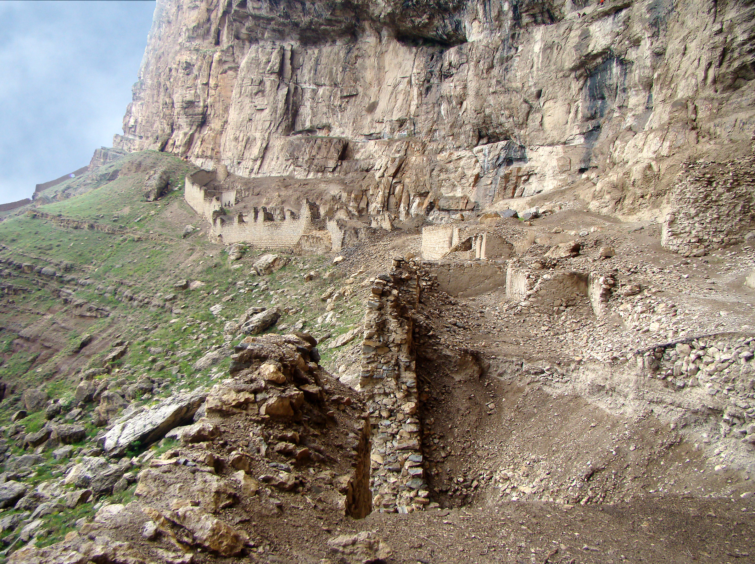 Maku in west Azerbaijan.